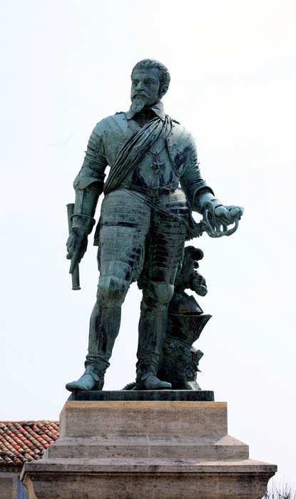 Statue of Crillon le Brave in Vaucluse, France